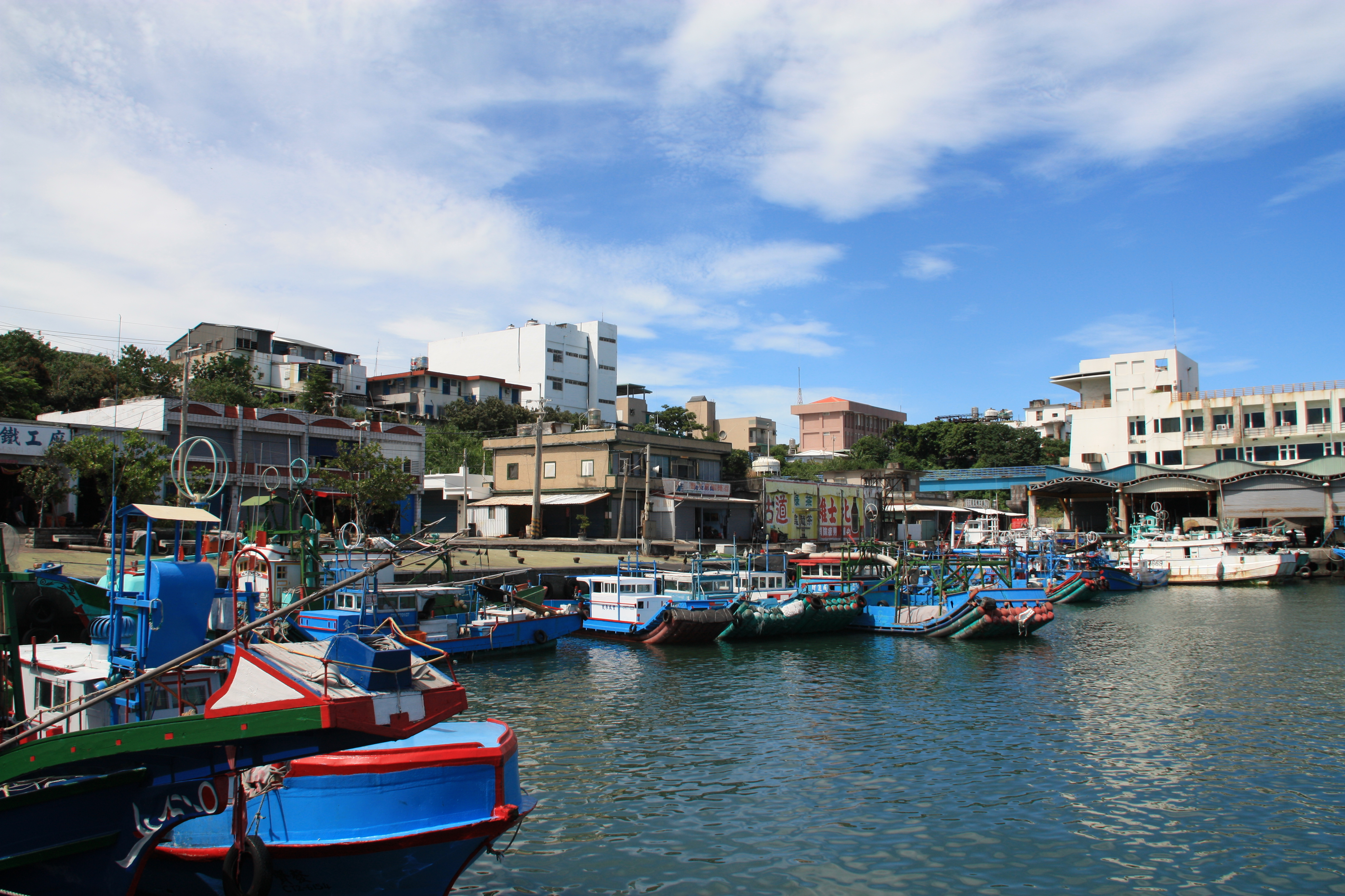 Taitung County Chenggong Chenggong Fishing Harbor